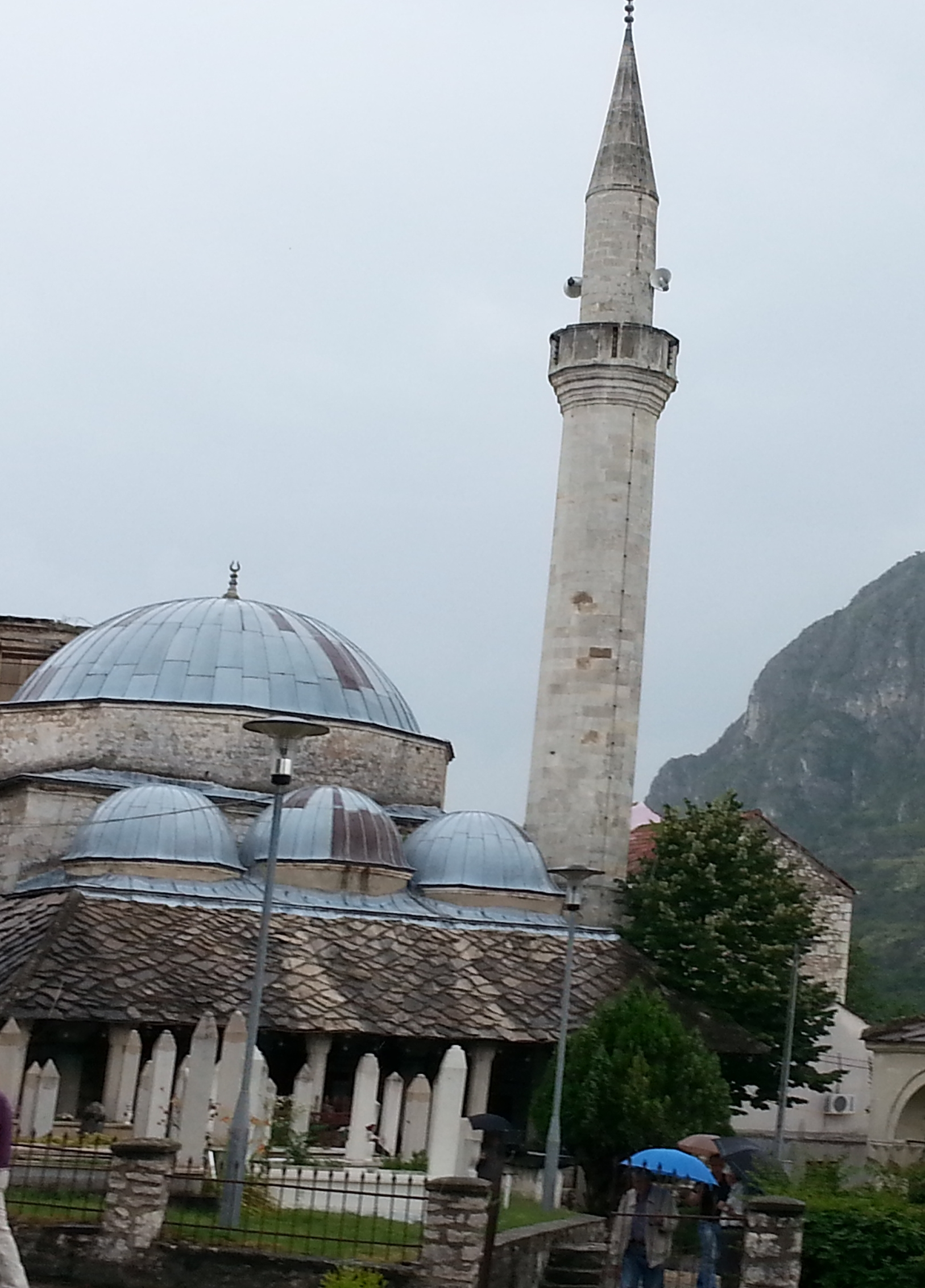 Vučjakovića Mosque in Mostar